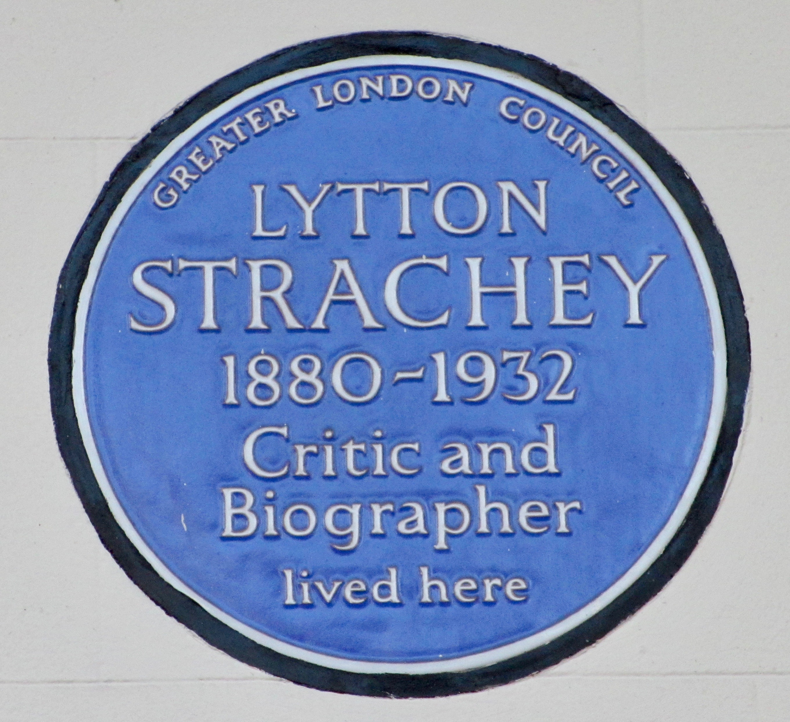 The Greater London Council blue plaque for Lytton Strachey at 51 Gordon Square, Bloomsbury, London WC1H 0PN in the London Borough of Camden.